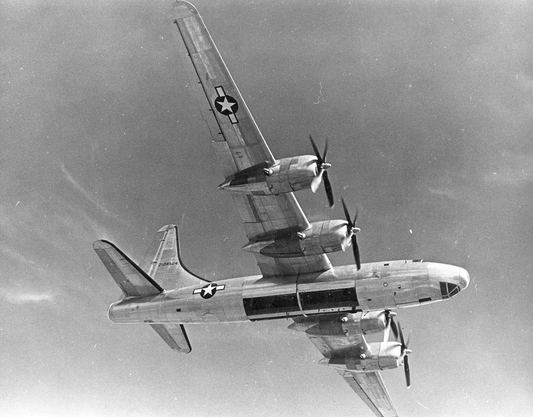 Consolidated TB-32-15-CF (s/n 42-108524, the last TB-32 built) in flight, belly view